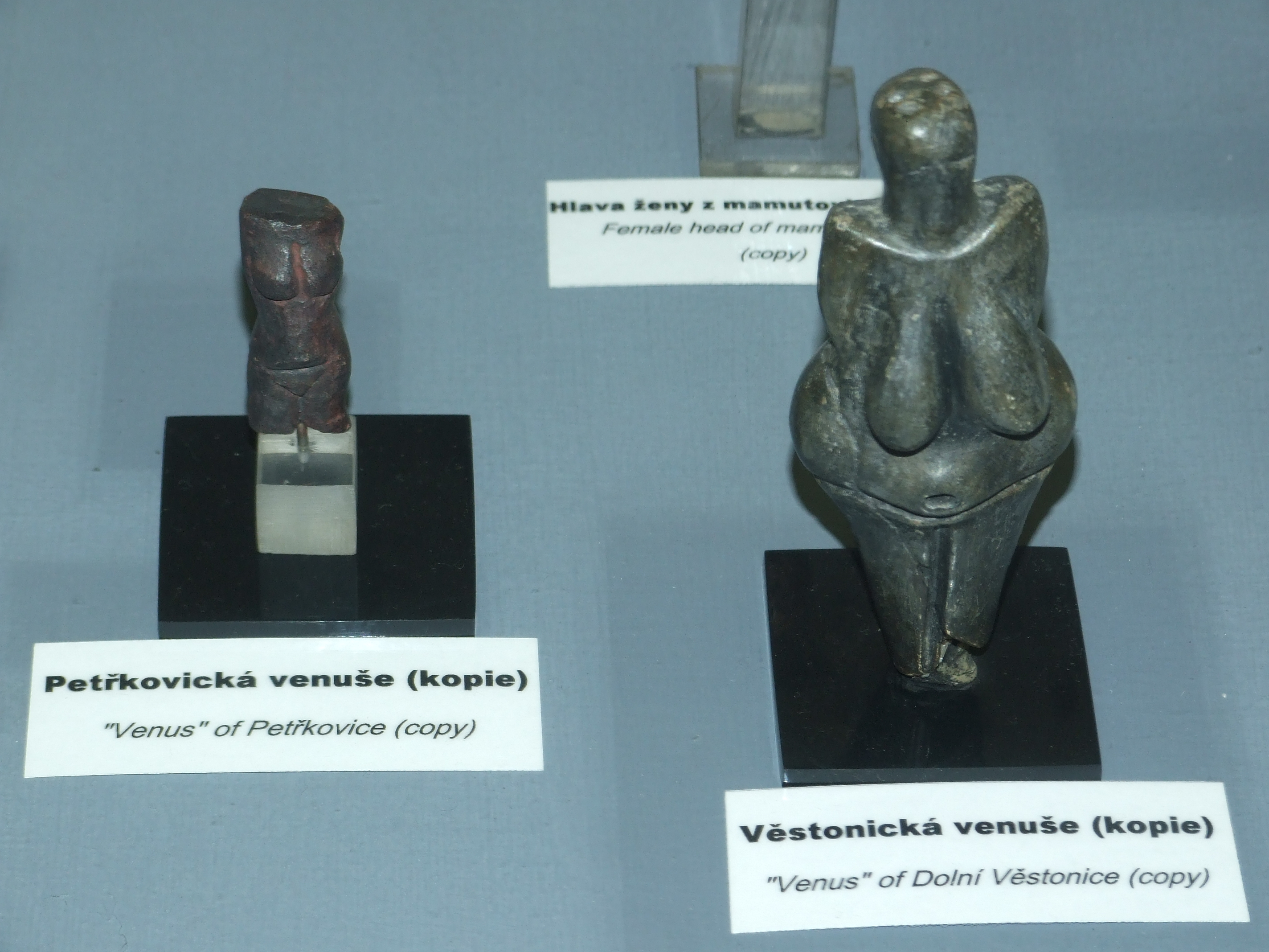 Prehistoric Times of Bohemia, Moravia and Slovakia, National Museum in Prague. Venus of Petřkovice (c. 23k BP) and Venus of Dolní Věstonice (c. 29k BP) (both replicas).